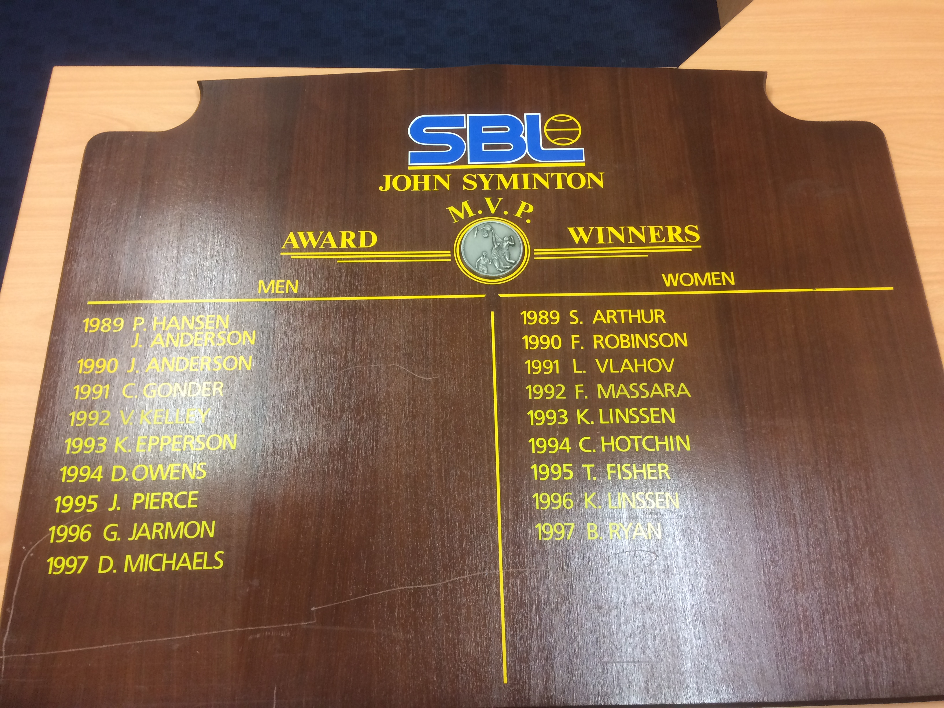 John Syminton MVP plaque